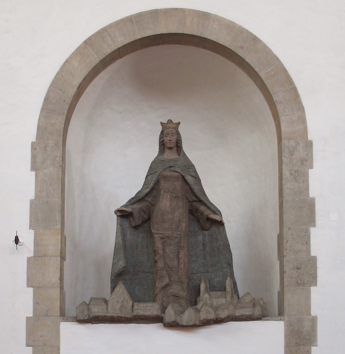 Bamberg-Gartenstadt, Statue of St Cunigunde by Robert Bauer-Haderlein (1977/78) inside St Cunigunde's Parish Church.